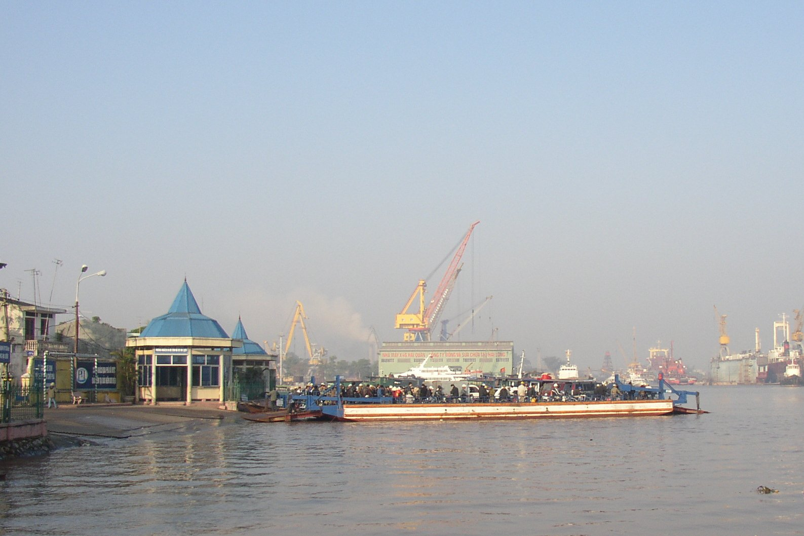 A Ferry in the Haiphong harbor